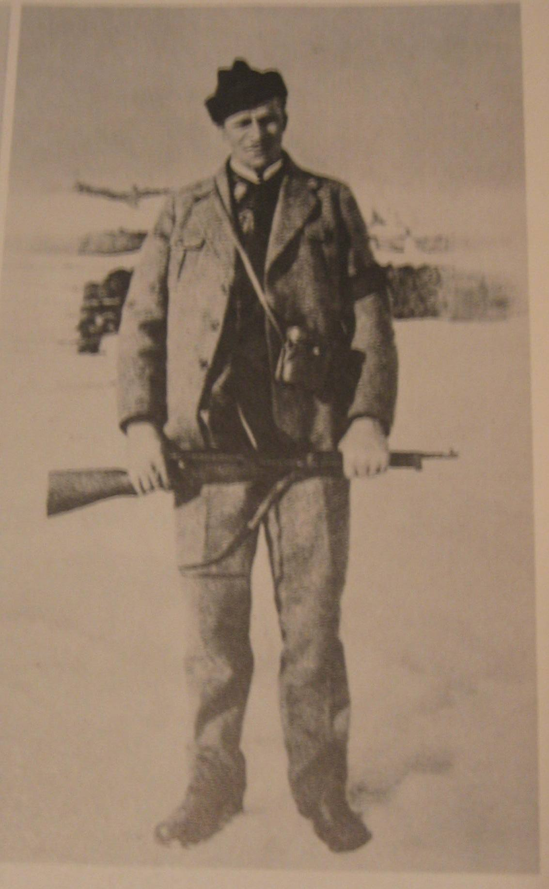 Finnish red guard leader August Wesley